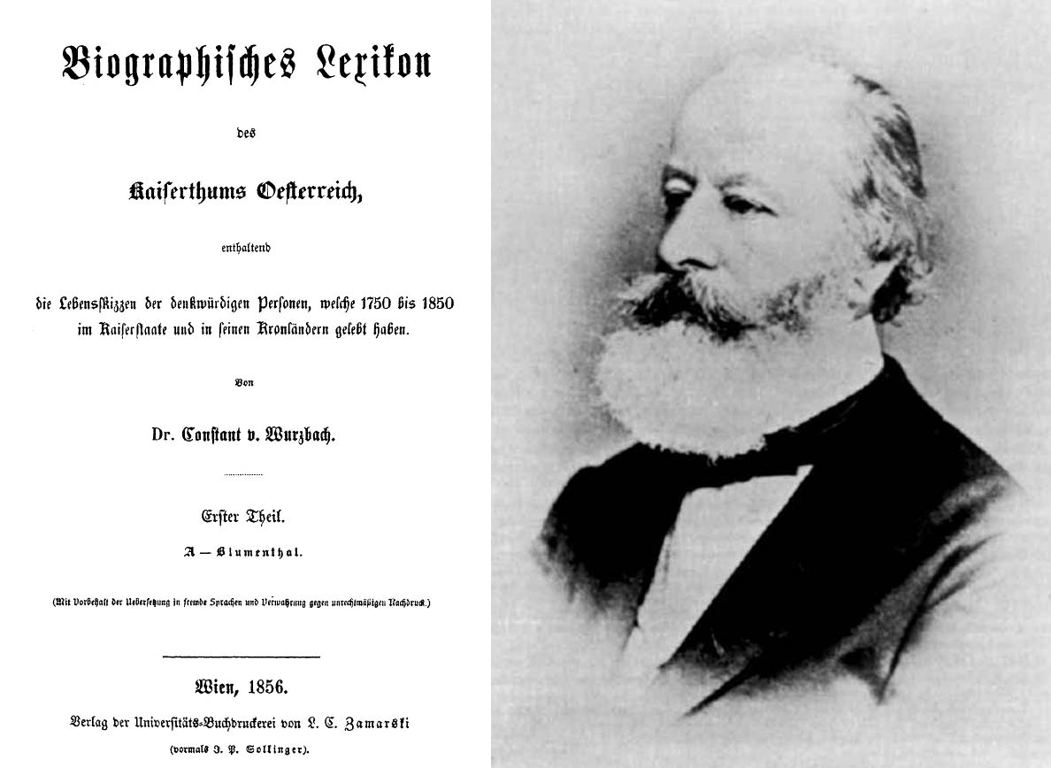 Wurzbach, Constantin, Ritter von Tannenberg (1818-1893) and title page of his Austrian national encyclopedia, vol. 1 of 60, 1856